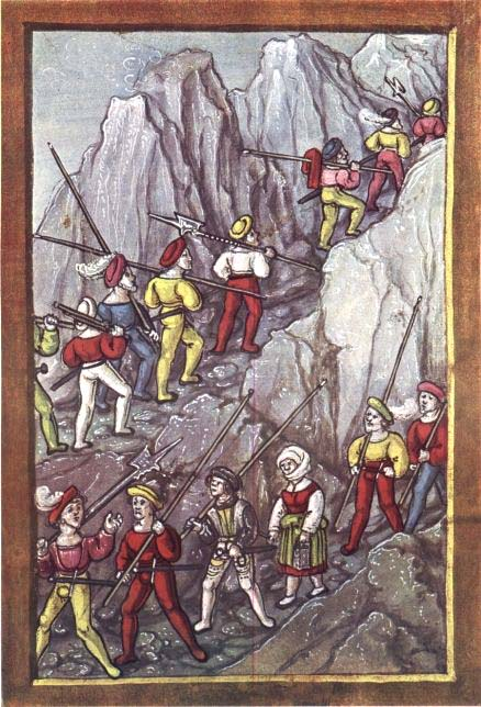 Swiss mercenaries traversing the Alps. Following the capture of Cremona (1509) in the War of the League of Cambrai, Swiss mercenaries desert the French army and walk home. Illustration from the Lucerne Chronicle of 1513.